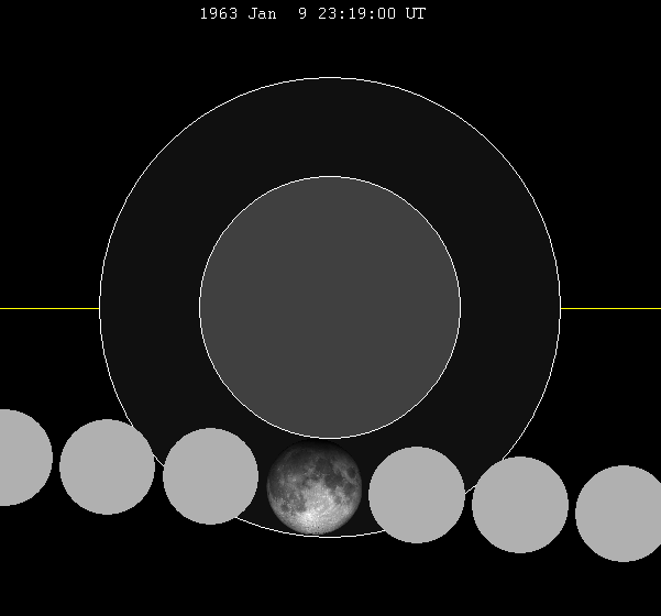 January 1963 lunar eclipse chart of moon's penumbral lunar eclipse path through the earth's shadow. thumb